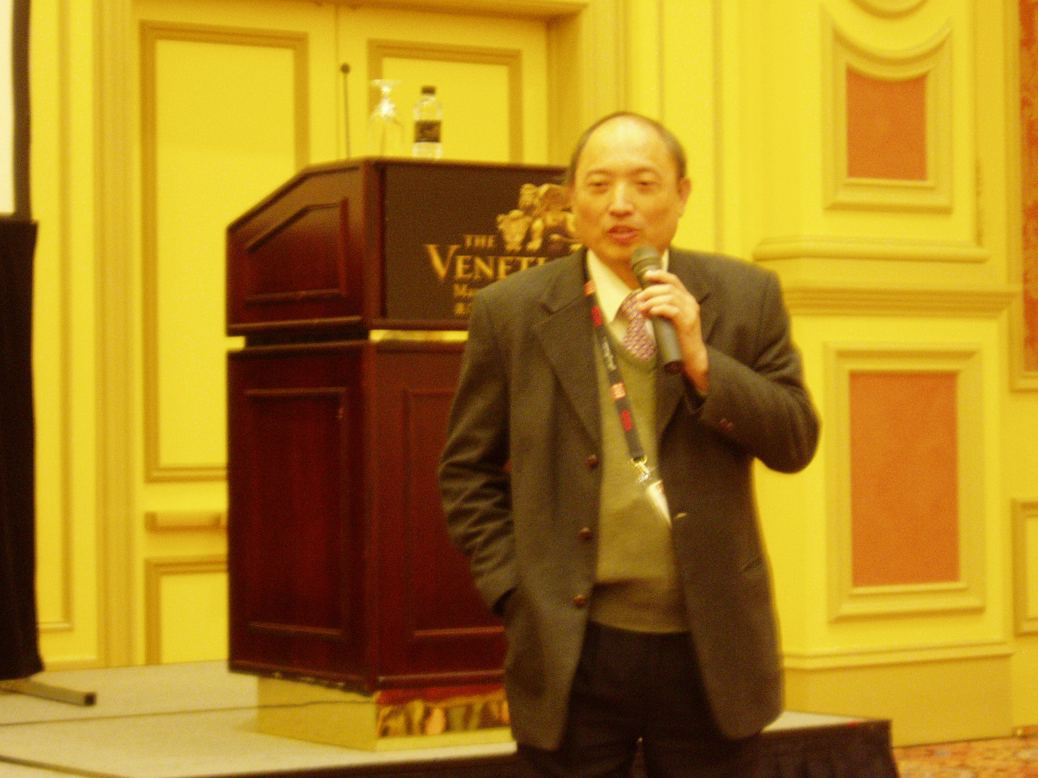 Asia Adult Expo 2008 - Prof. Emil Man Lun Ng